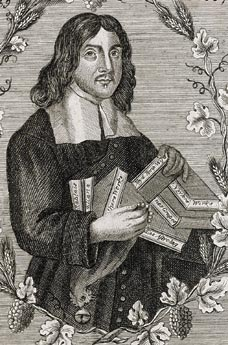 William Winstanley (ca. 1628 - ca. 1698), English poet, most famous for Lives of the most Famous English Poets from 1687